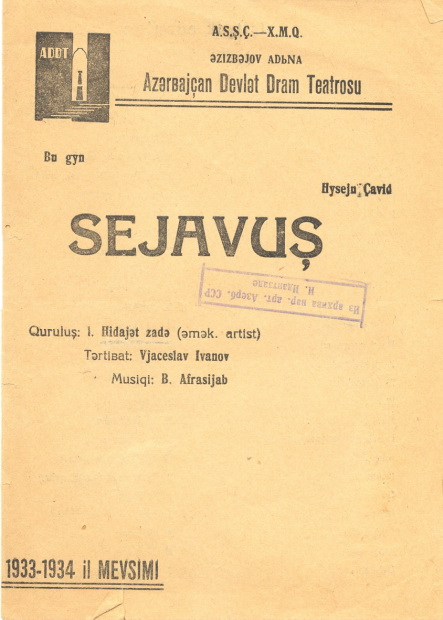 Program of Seyavush